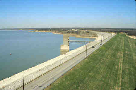 Picture of Grapevine Lake's dam